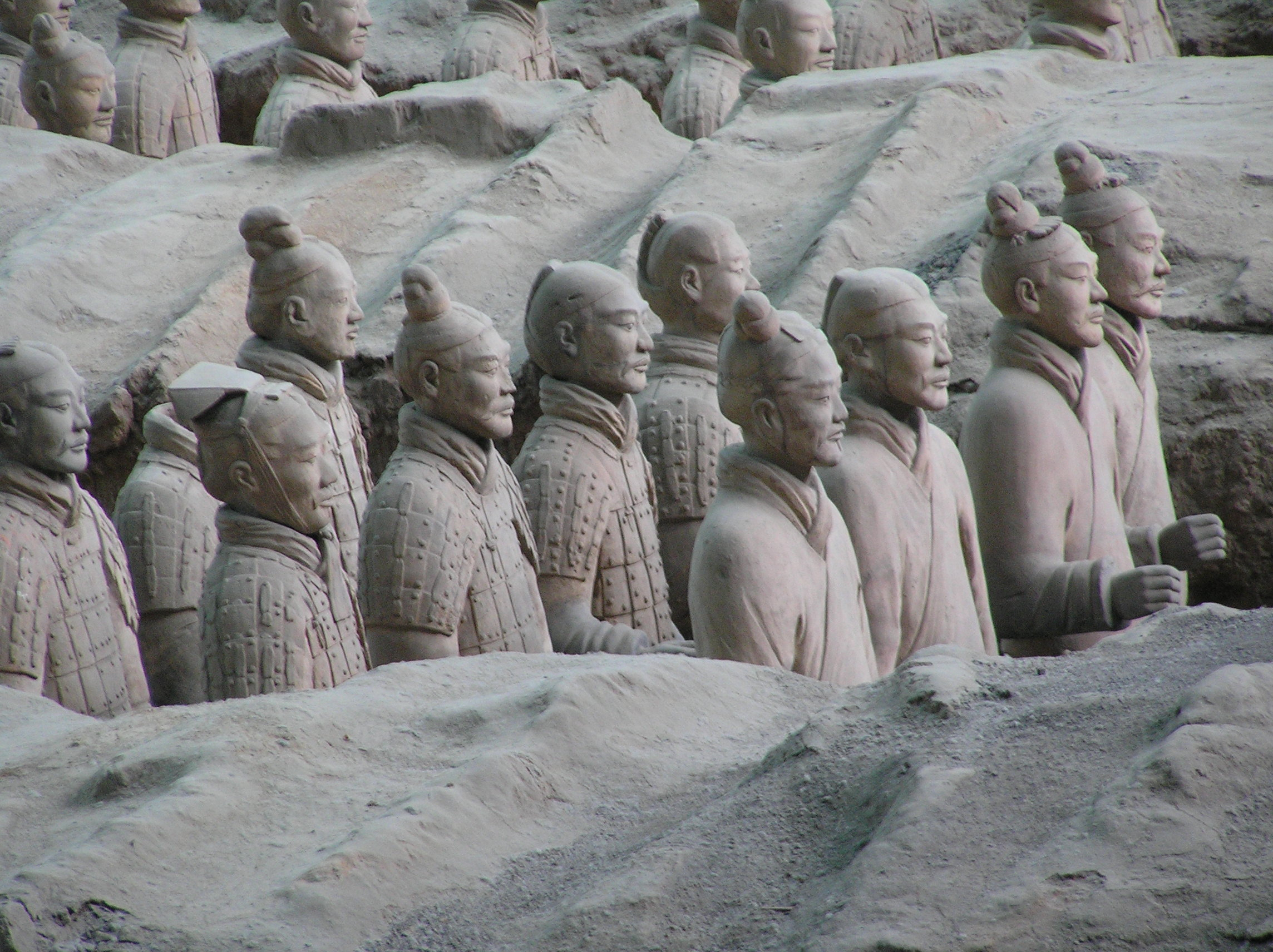 I took this picture in summer 2005. A group of soldiers in the largest excavated pit.